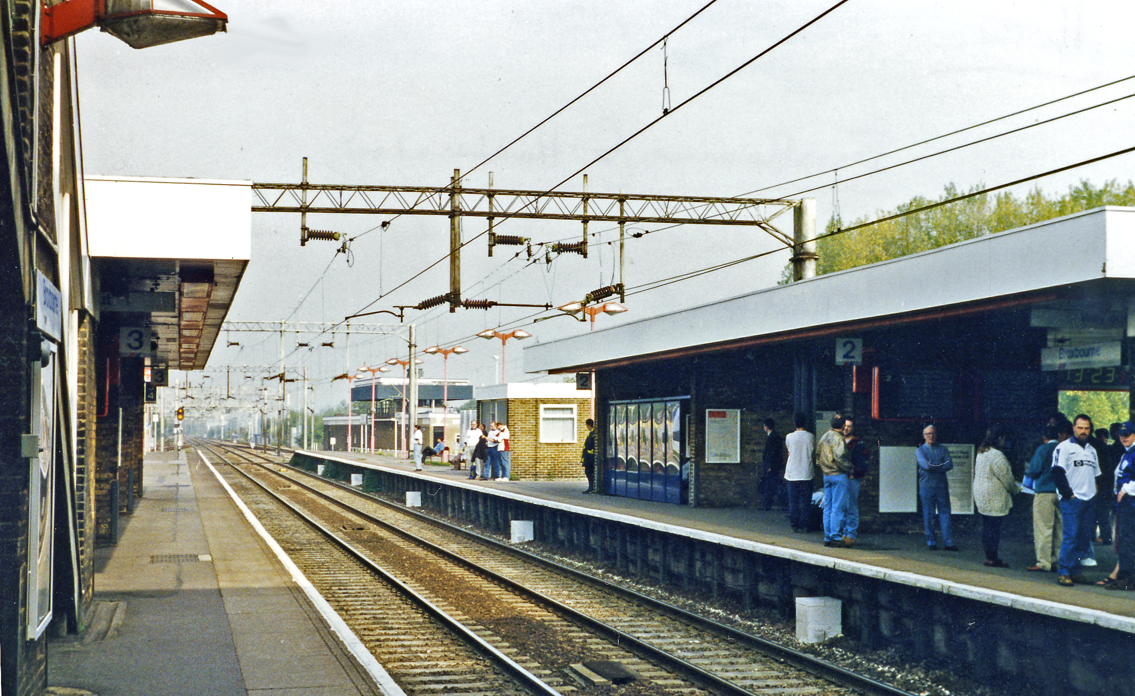 Broxbourne station, 1995. View NE, towards Bishops Stortford, Cambridge etc., also Hertford East: ex-GER Liverpool Street - Cambridge main line, junction for Hertford East.